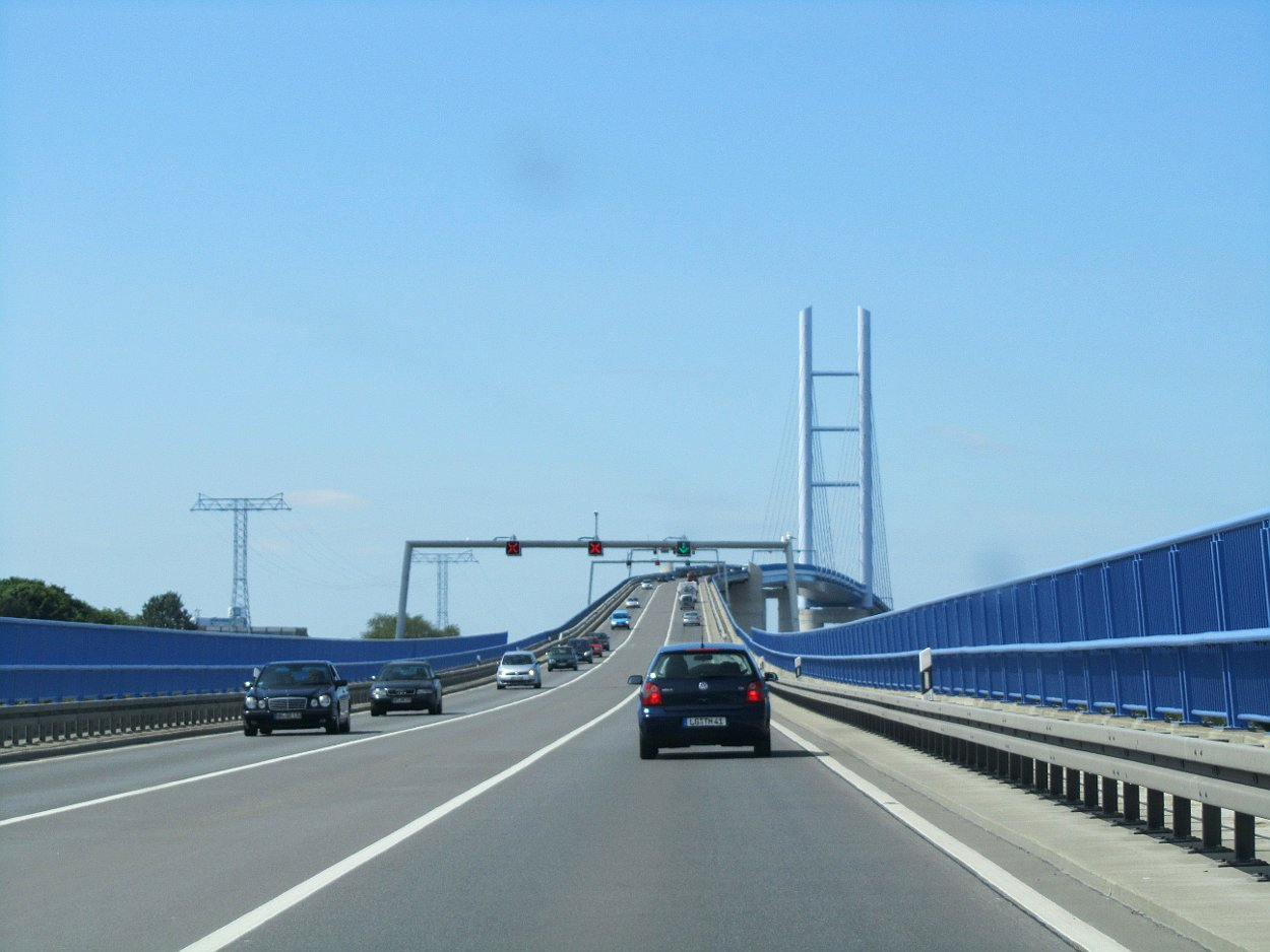 Germany / Island Rügen / Rügen bridge